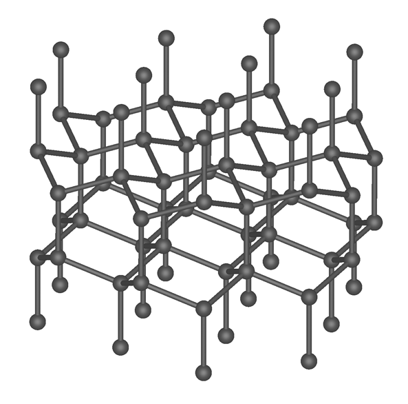 Structure of Lonsdaleite. Cropped from the more detailed image Image:Eight Allotropes of Carbon.png. Mstroeck, the copyright holder of this work, hereby publishes it under the following license: Attribution: Mstroeck